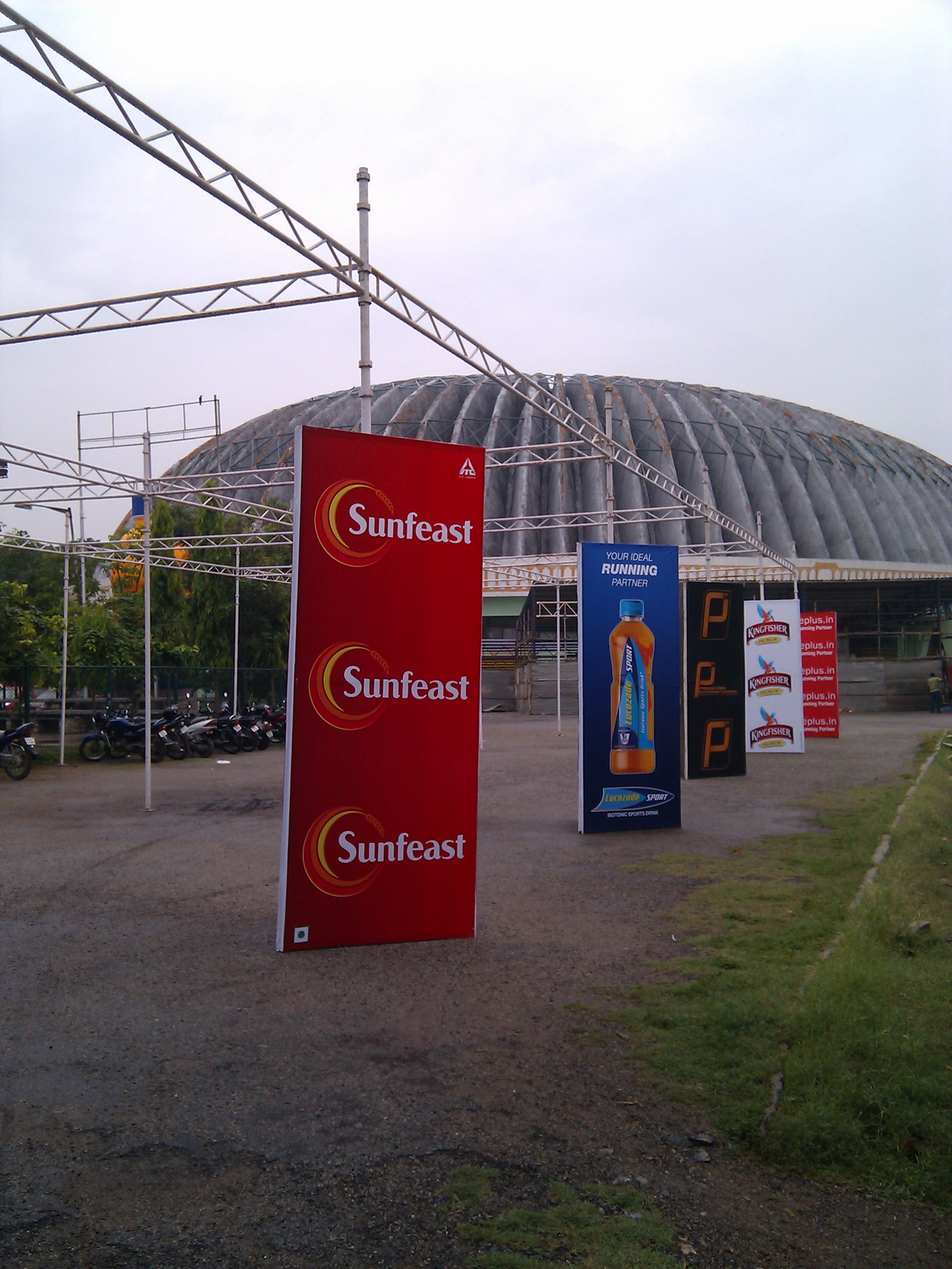 2010-05-19 17.59.43 - Image of Sree Kanteerava Stadium in 2010, showing advertisements for the 2010 Sunfeast World 10K Bangalore.